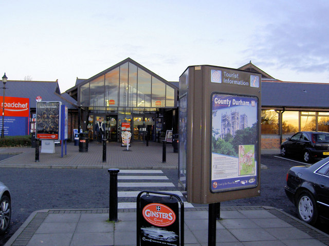 Road Chef Durham motorway services